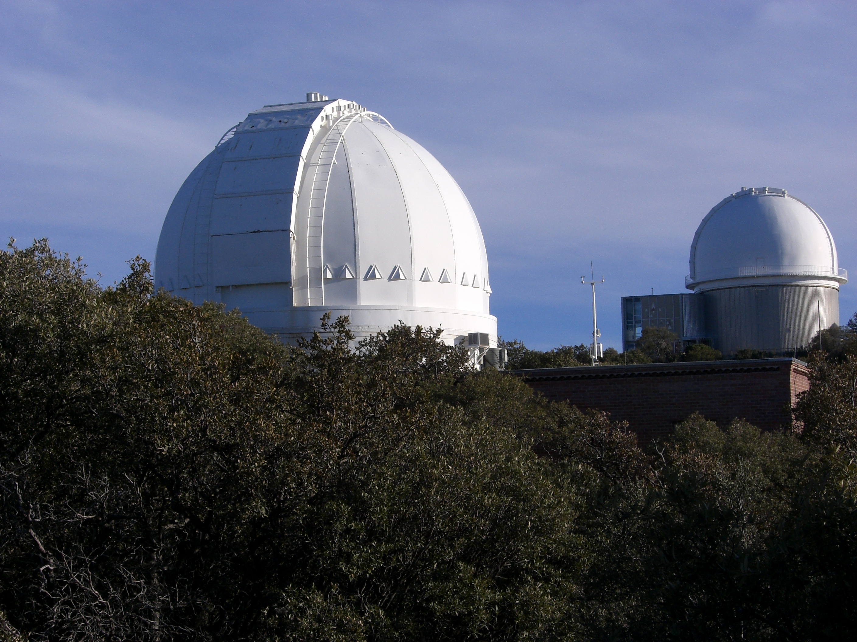 center left: Steward Observatory 0.9-meter telescope, the oldest on Kitt Peak. It was installed in 1921, right: KPNO 2.1m